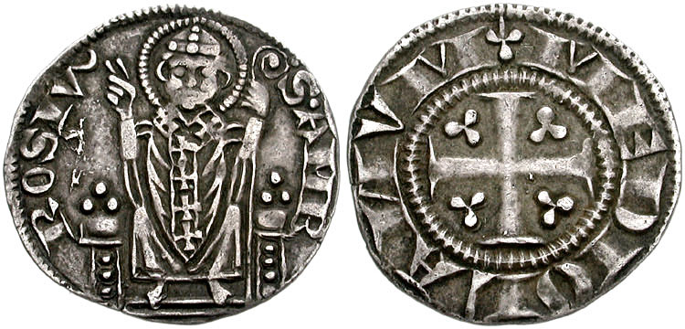 ITALY, Milan. First Republic. 1250-1310. AR Soldo–Ambrosino Piccolo (20mm, 2.10 g, 9h). Cross with trefoils in angles St. Ambrose enthroned facing, wearing mitre and holding crozier. CNI V pg. 59, 25; Biaggi 1427.